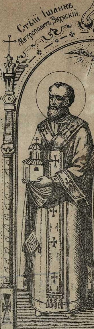 Isaiah 1864 Gravure of Saint John of Zihna